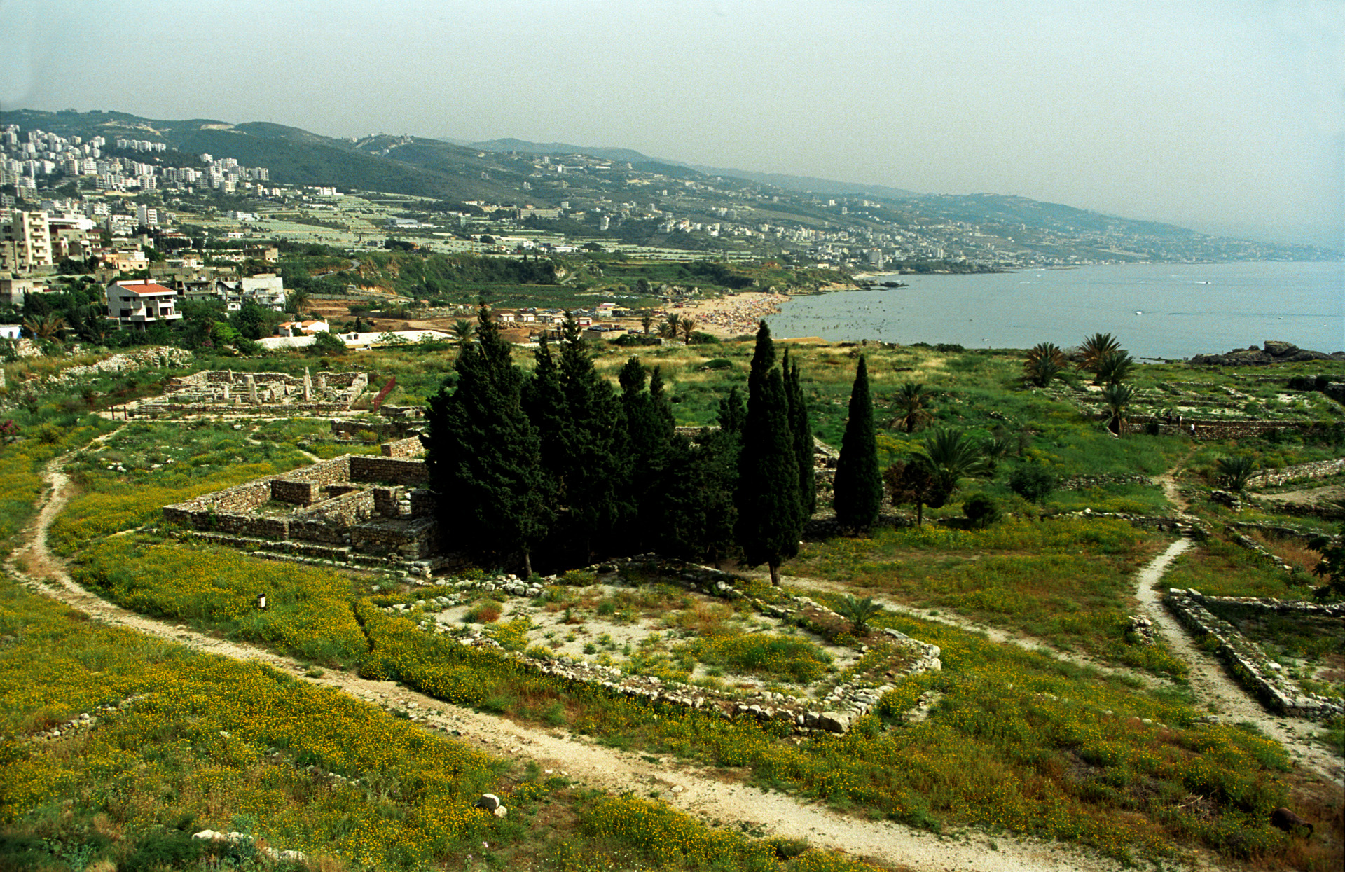 Byblos, the L-Shaped temple